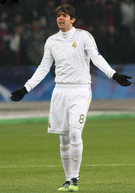 Kaká